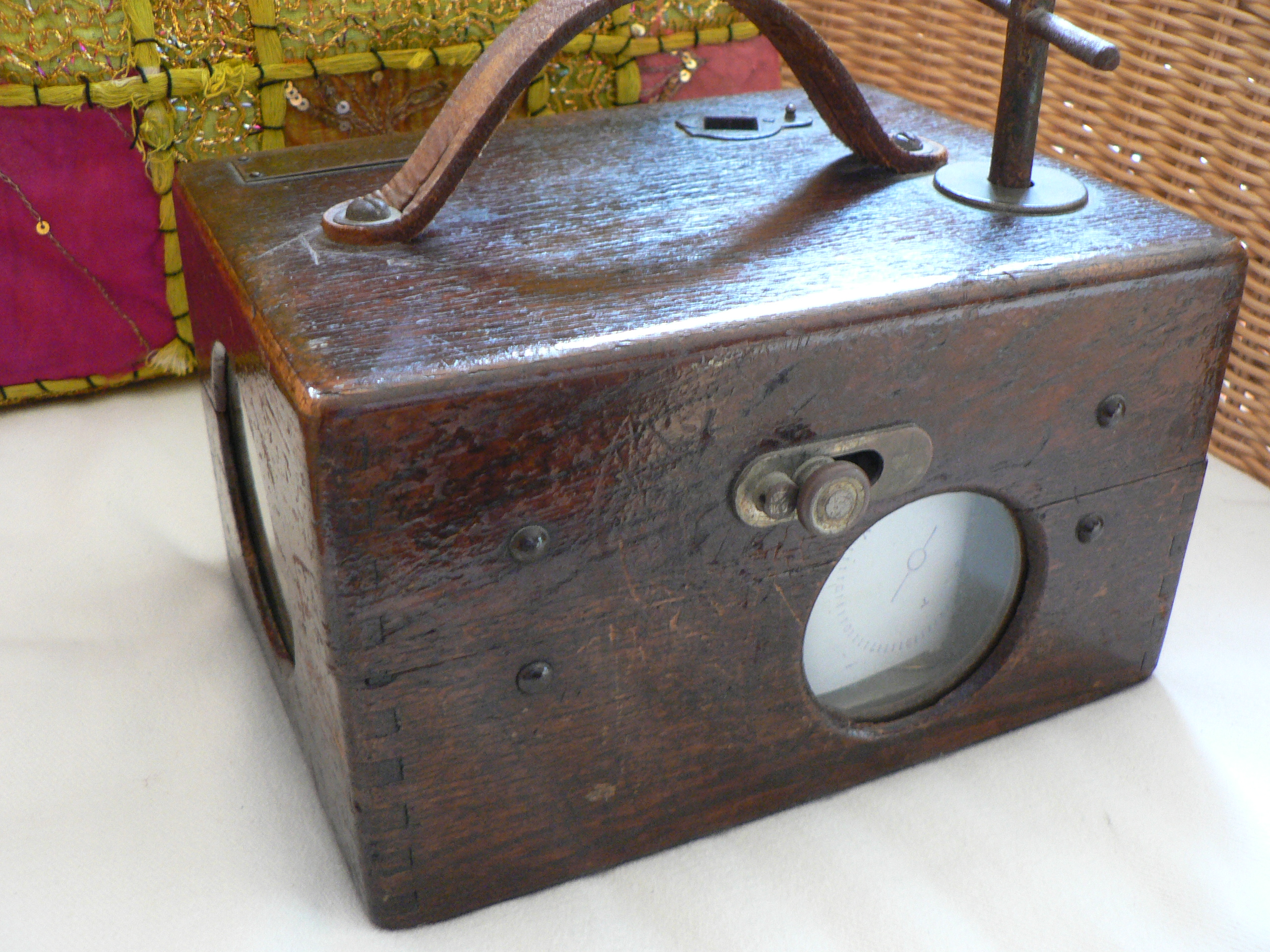 Pigeon race clock, Flanders, Belgium